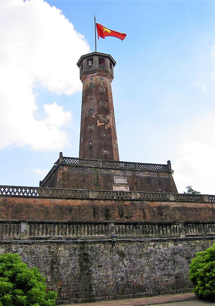 Flag tower at the site of the Military History Museum, Hanoi. This tower was built in 1812. Since the current flag of the Socialist Republic of Vietnam was created in 1954, it has flown from this tower since then.